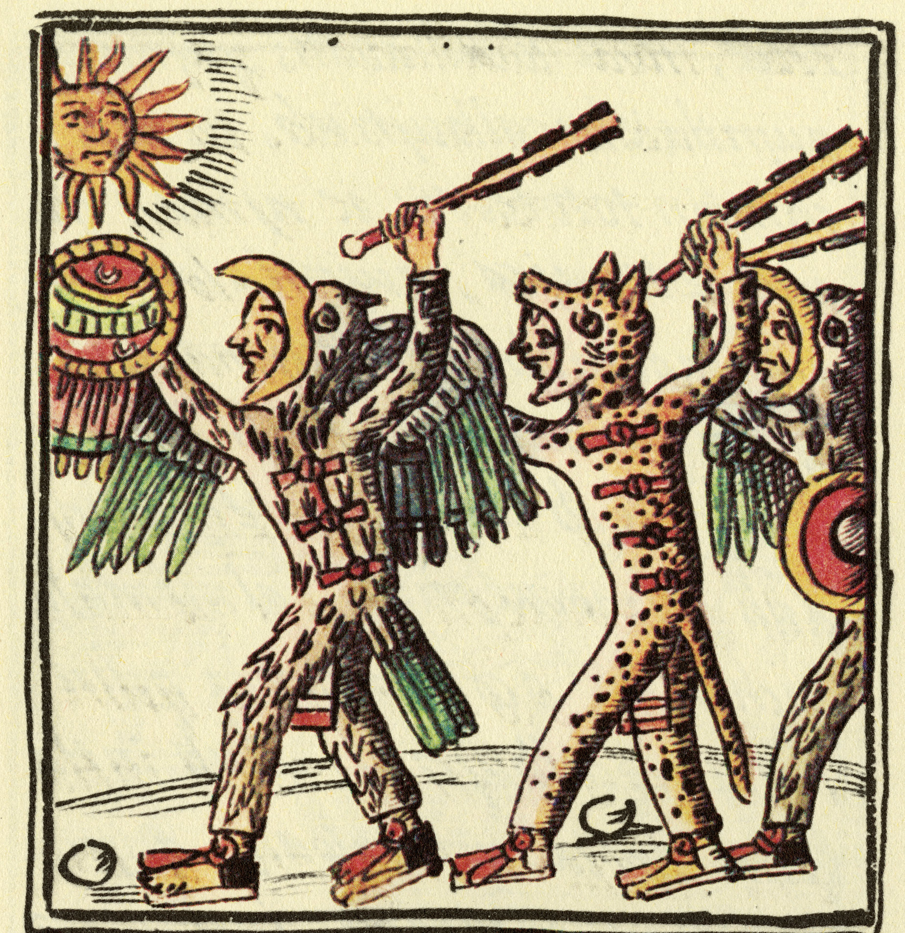 Aztec Warriors (Eagle Warrior at the left and Jaguar Warrior at the right) brandishing a macuahuitl (a wooden club with sharp obsidian blades).